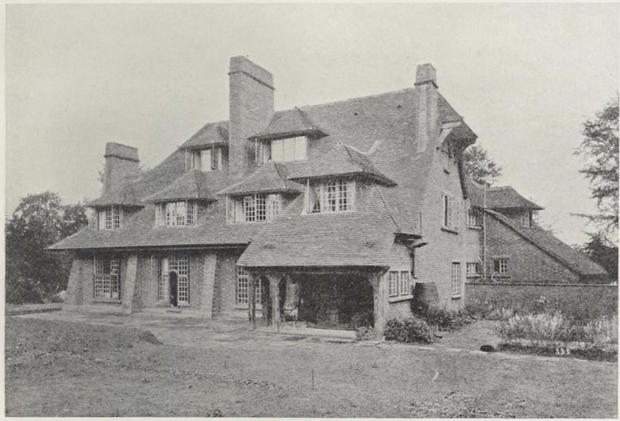 The Sheeling, Chalfont St Giles, Buckinghamshire, by James Edwin Forbes and John Duncan Tate, Architects. From The Studio Yearbook 1910